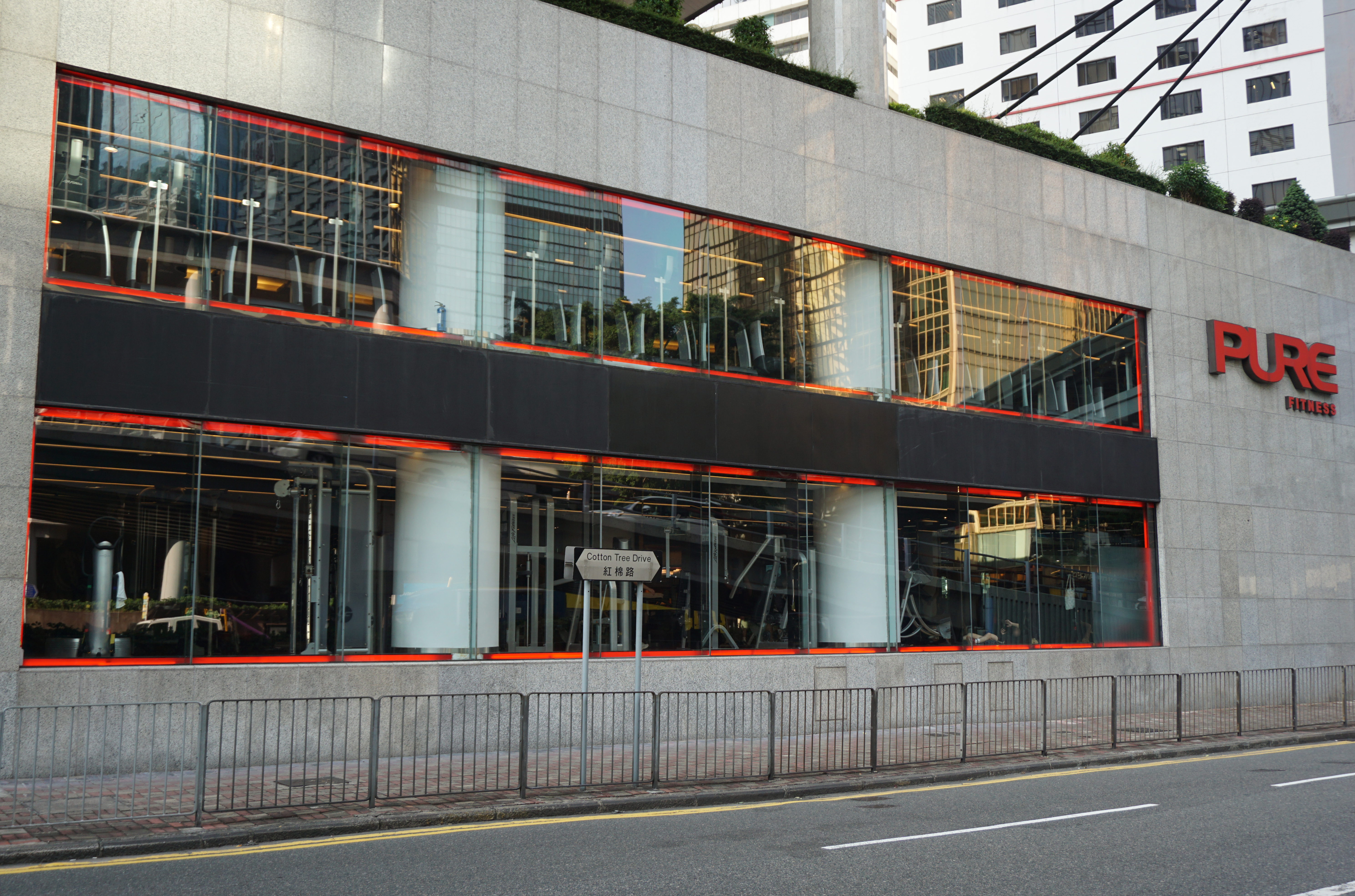 Pure Fitness in Admiralty, Hong Kong.